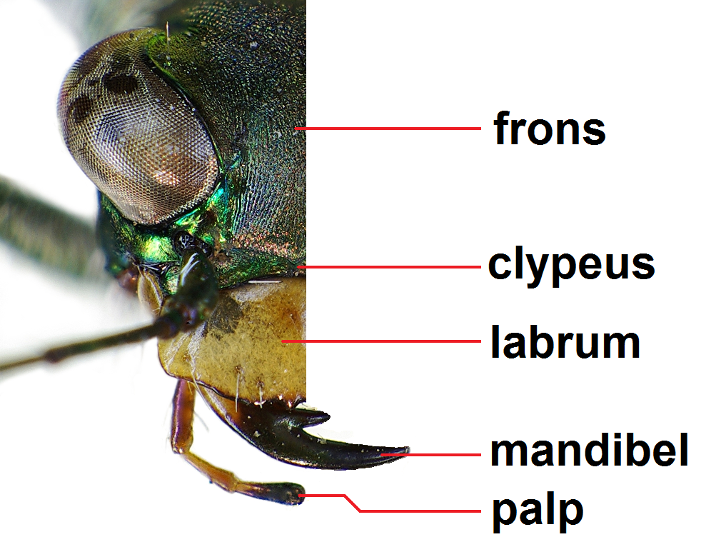 Front of Cephalota circumdata subspecies circumdata